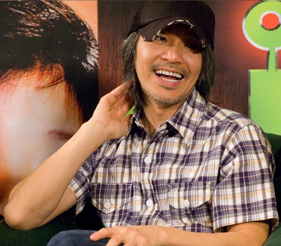 Stephen Chow at a press conference in Kuala Lumpur, Malaysia. "Press conference at J.W.Marriott KL on 5 Feb 2008 with Sing Yeh, Lee Sheung Ching & Kitty Zhang." Slightly cropped from the original using MS Paint.